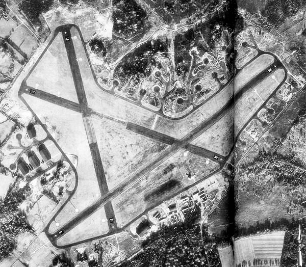 Aerial photograph of Holmsley South Airfield, England.